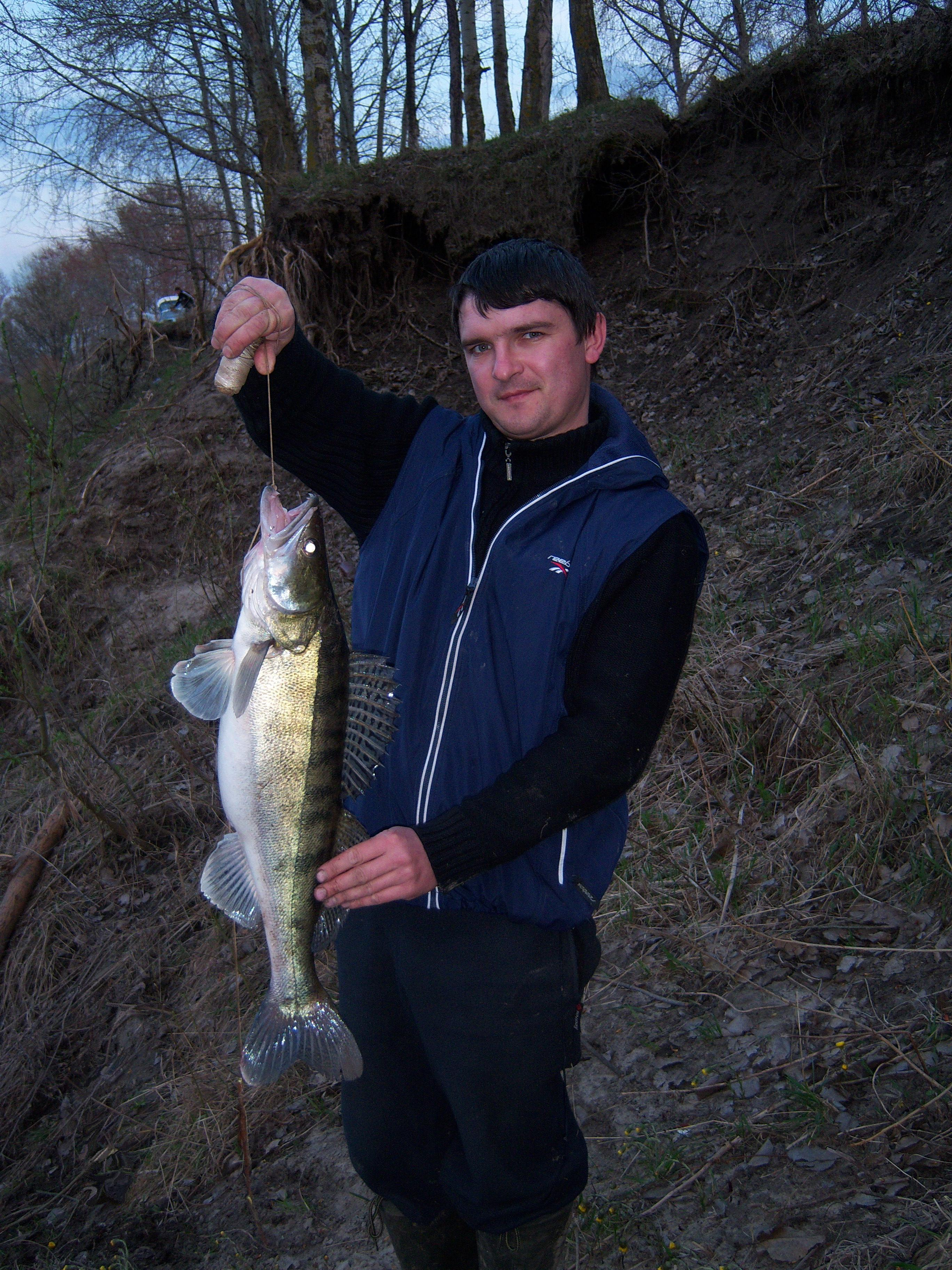 A Bondarev